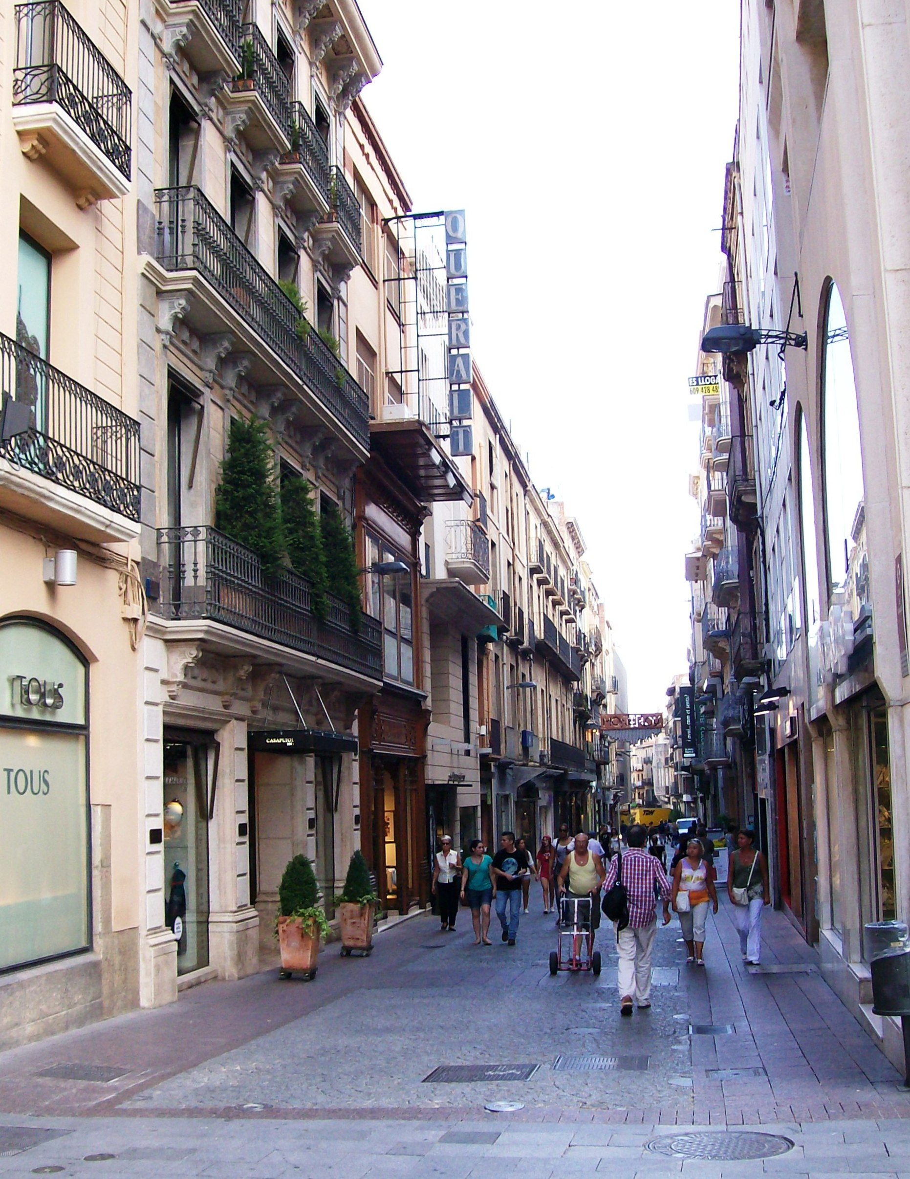 A street in Reus